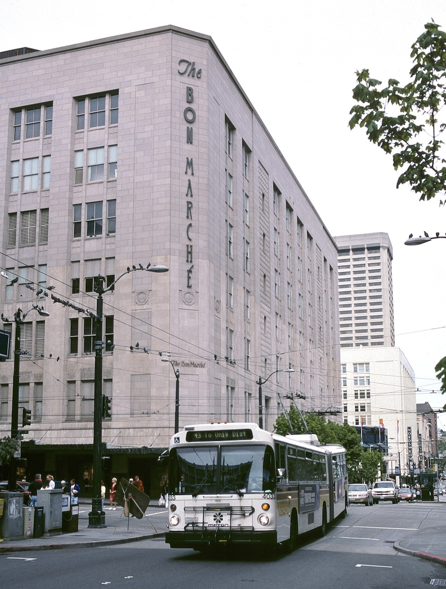 The flagship store of The Bon Marché department store chain, in Seattle, when still operating under that name. This photo is looking east on Pine Street towards the Third Avenue corner, with a King County Metro trolley bus in the foreground. The store was rebranded as Bon-Macy's in 2003 and became simply Macy's in 2005, the longstanding Bon name discontinued entirely, and it remains in operation as a Macy's department store. The building was officially designated a "landmark" of the city of Seattle by the city council in 1989 (ordinance number 114772) and was added to the U.S. National Register of Historic Places in 2016.